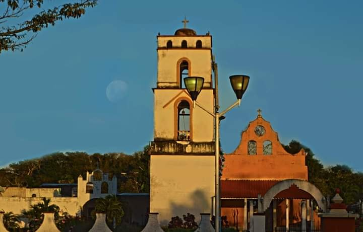 The church of Tinun